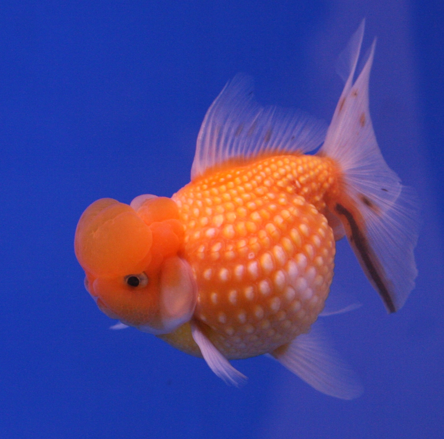 A pearl scale goldfish from The 6th "Pramong Nomjai Thaituala" Thailand Tropical Fish Competition 2007.